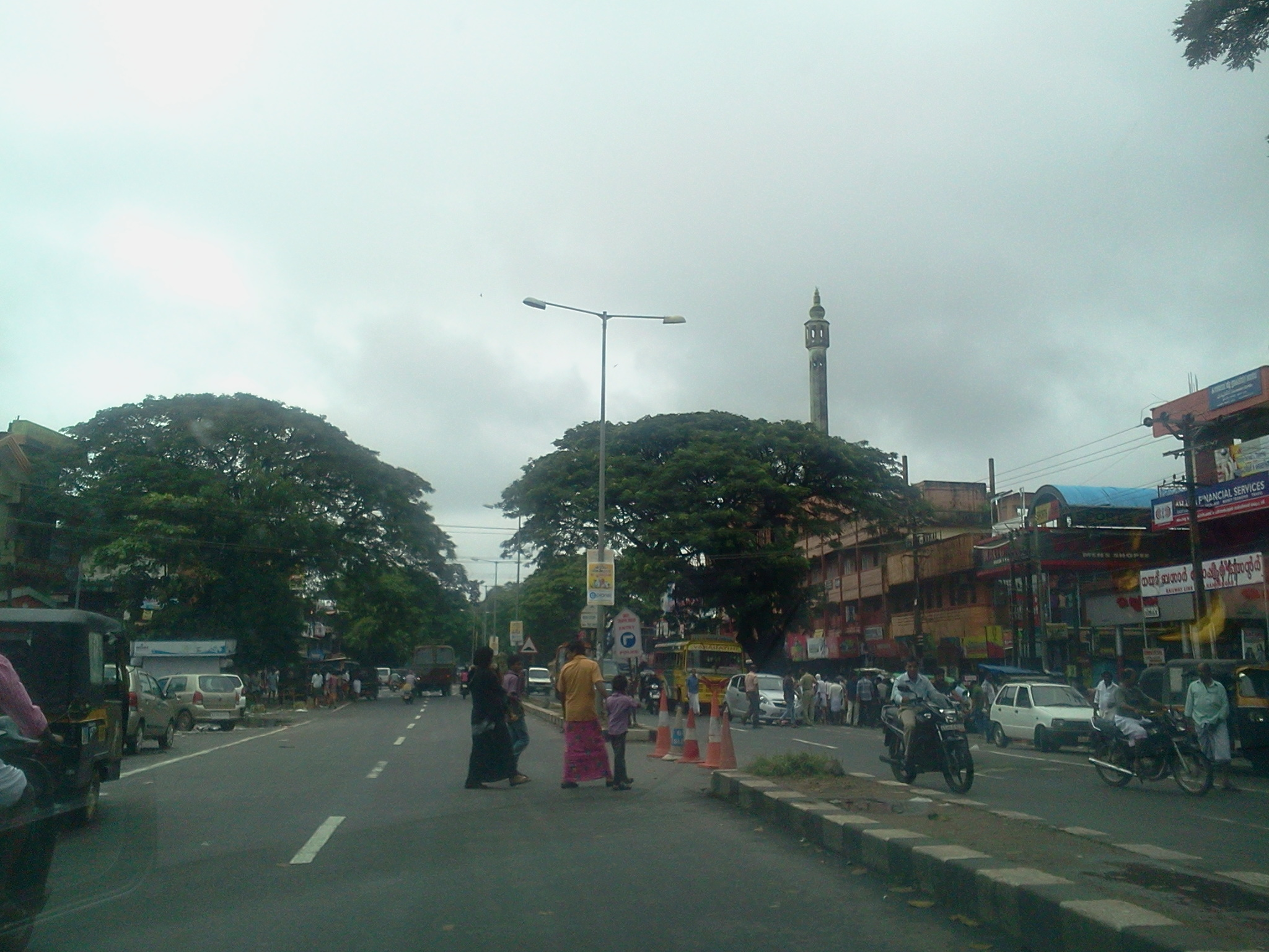 Kanhangad Town